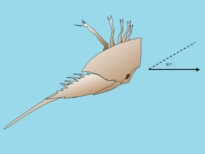 Scheme of a swimming Limulus (Chelicerata, Xiphosura), or horseshoe crab. Limulus normally swims upside down, inclined at about 30° to the horizontal and moving at about 10-15 cm/s.